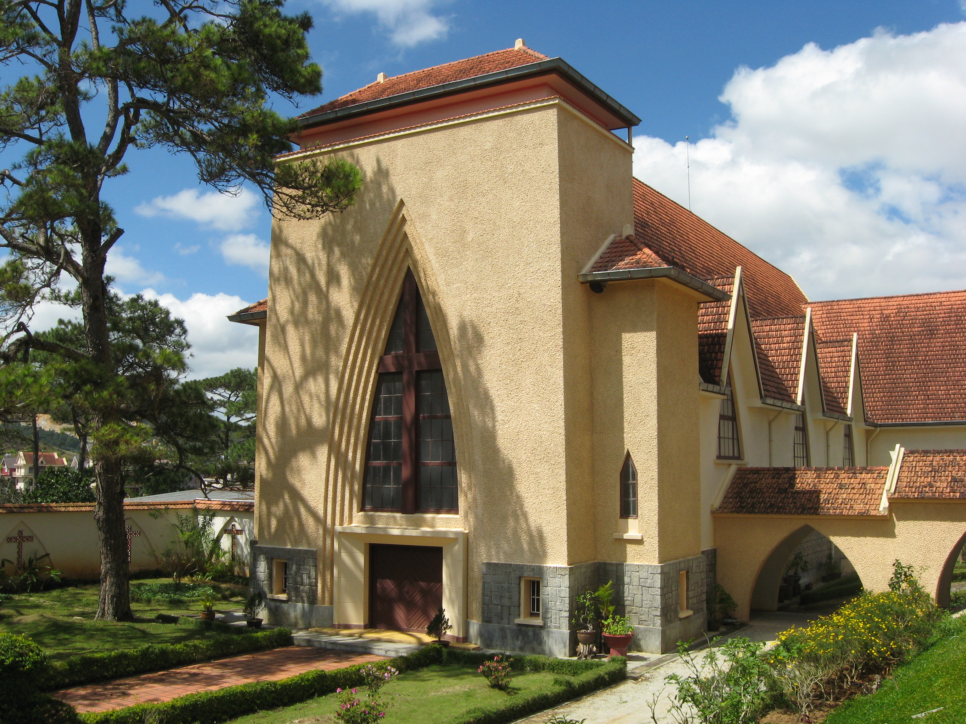 Notre Dame du Lang Bian